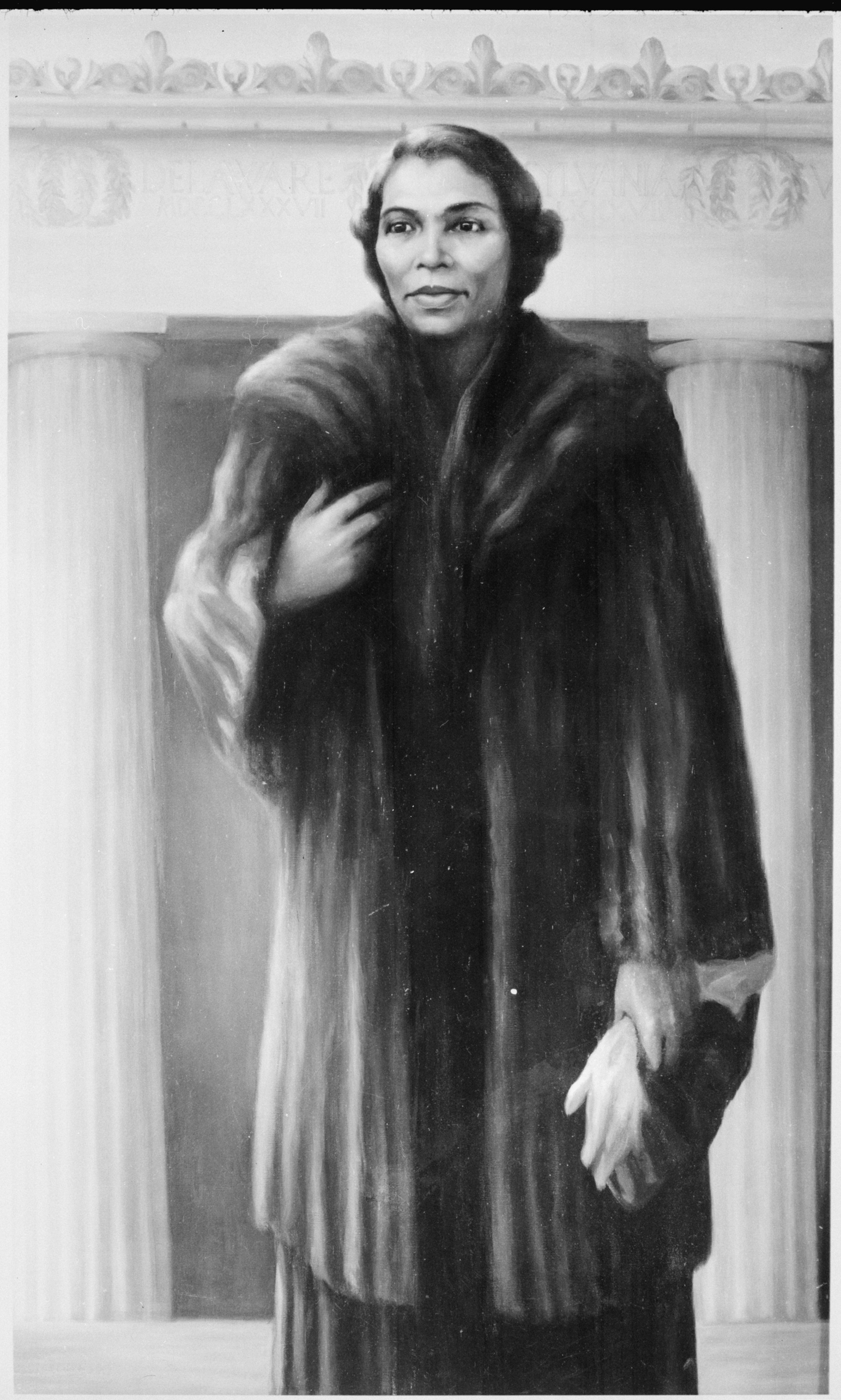 General notes: Painting